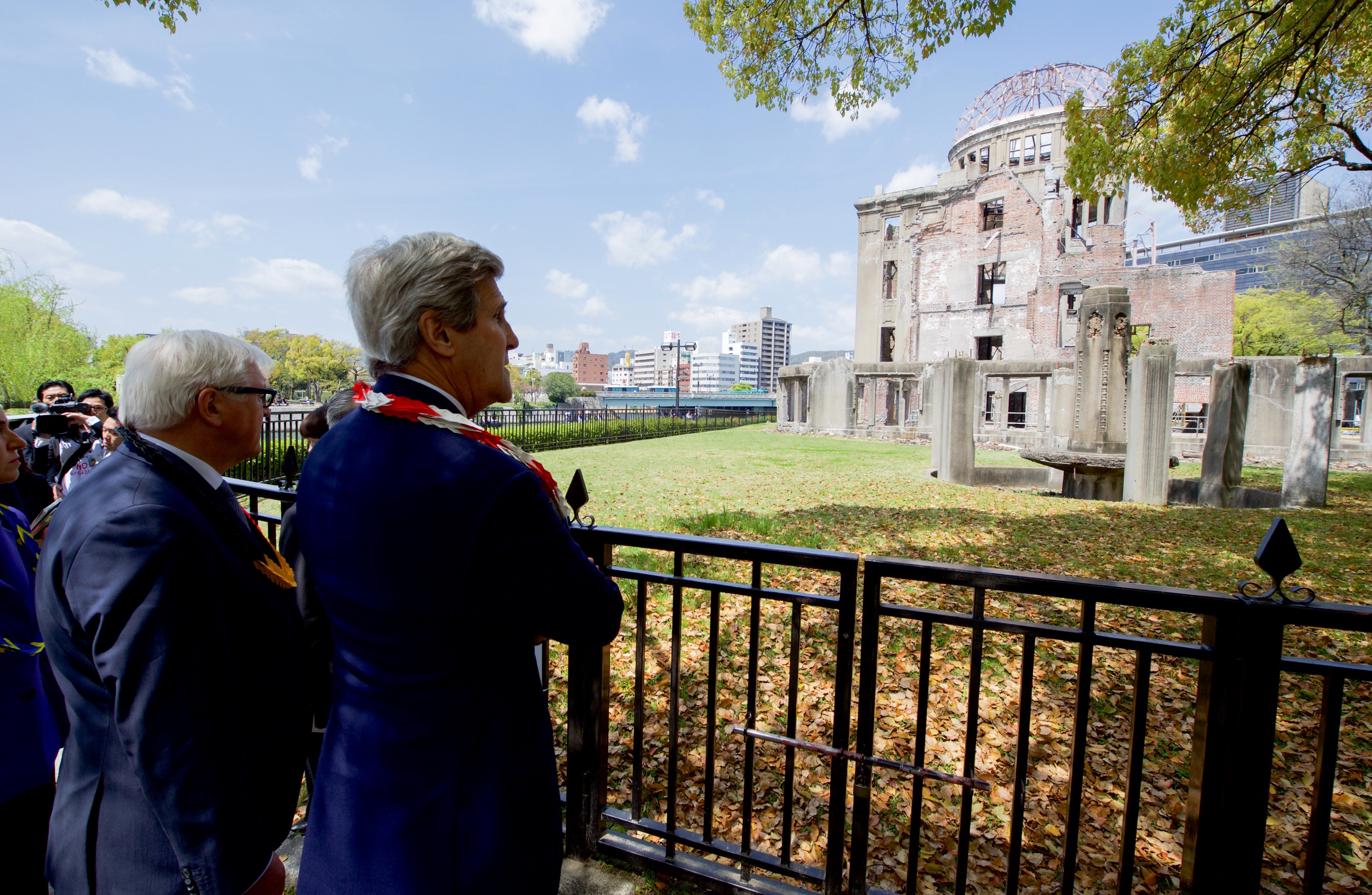 U.S. Secretary of State John Kerry and German Foreign Minister Frank-Walter Steinmeier look at the Hiroshima Peace Memorial - the remains of the former Prefectural Industrial Promotion Hall in Hiroshima, Japan - on April 11, 2016, as they visit the site memorializing the atomic bomb blast that ended the World War II Pacific campaign during a break in the G7 Ministerial Meetings in the city. [State Department Photo/Public Domain]